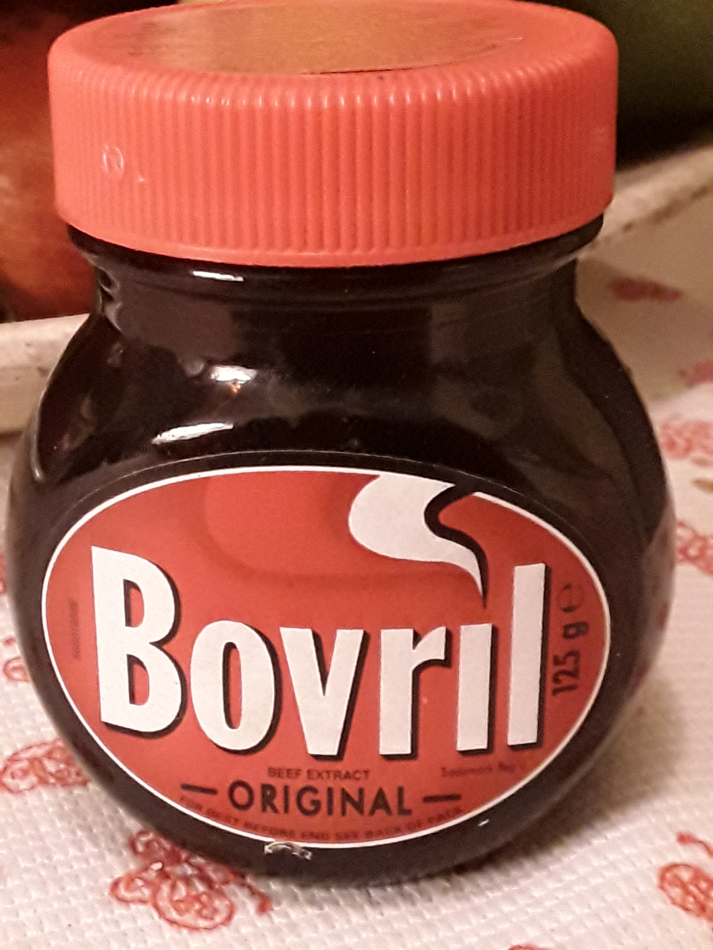 Bovril